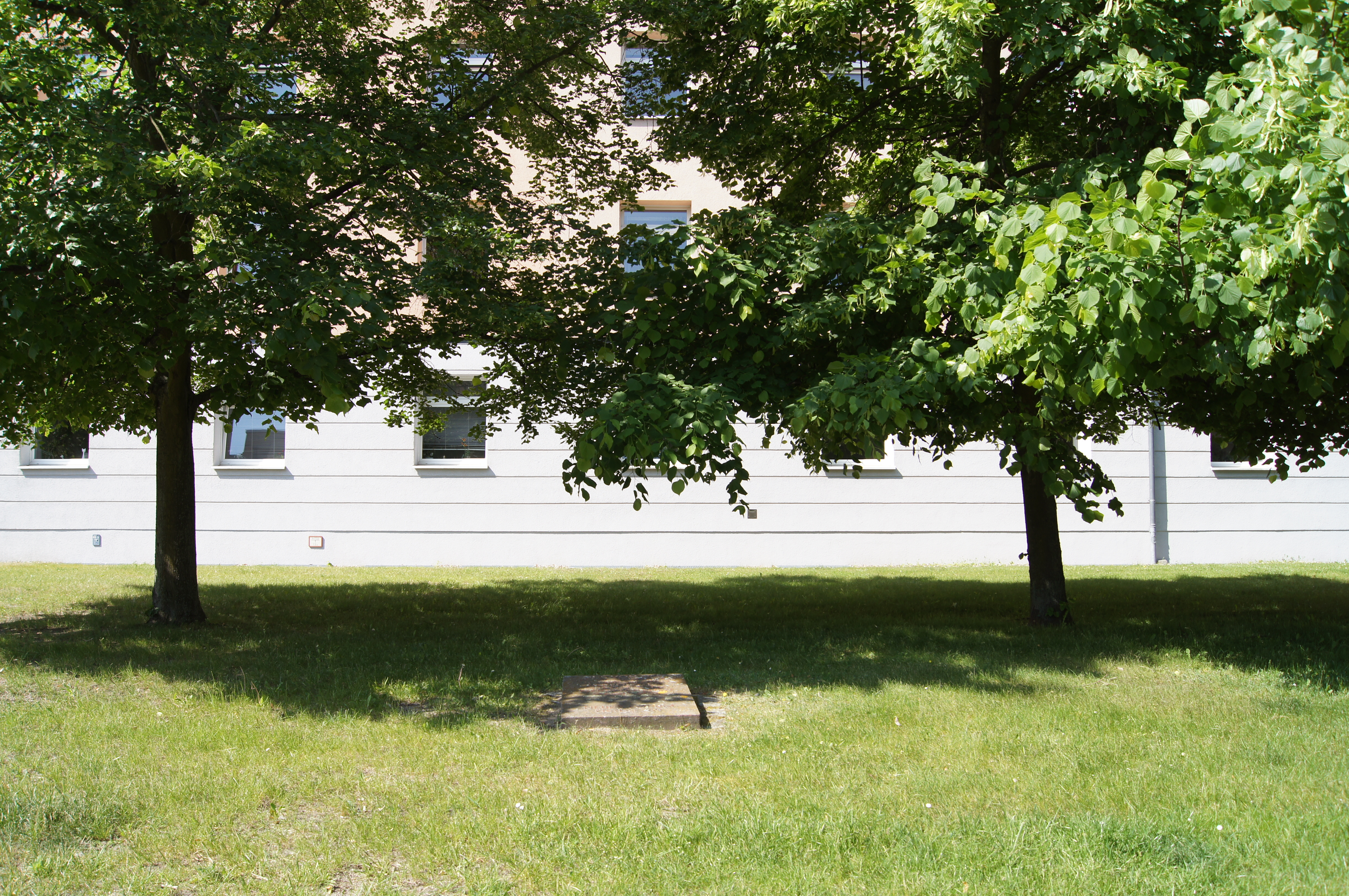 Memorial stone for the Stasi victims in Frankfurt (Oder), Germany